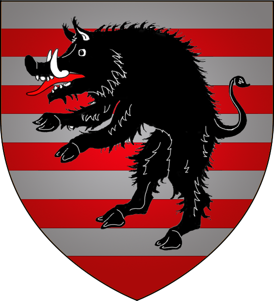 Coat of arms of the municipality of Heiderscheid, Luxembourg (valid until 1 January 2012)